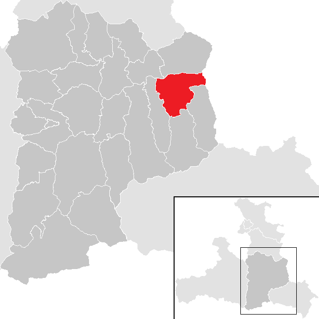 District Sankt Johann im Pongau